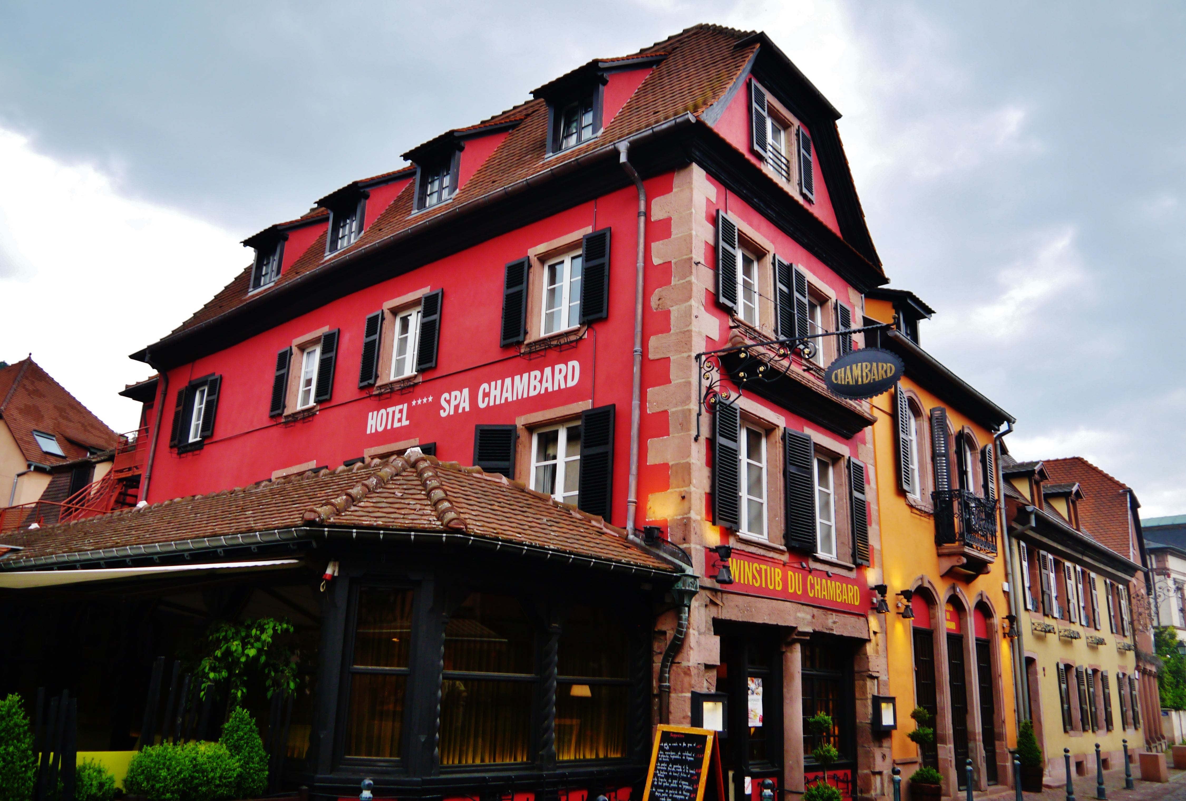 Hotel Chambard in the old town of Kaysersberg, France